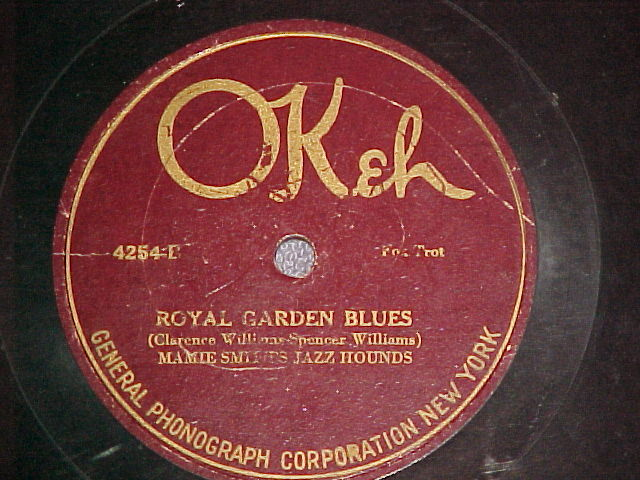 Mamie Smith shellack Royal garden blues